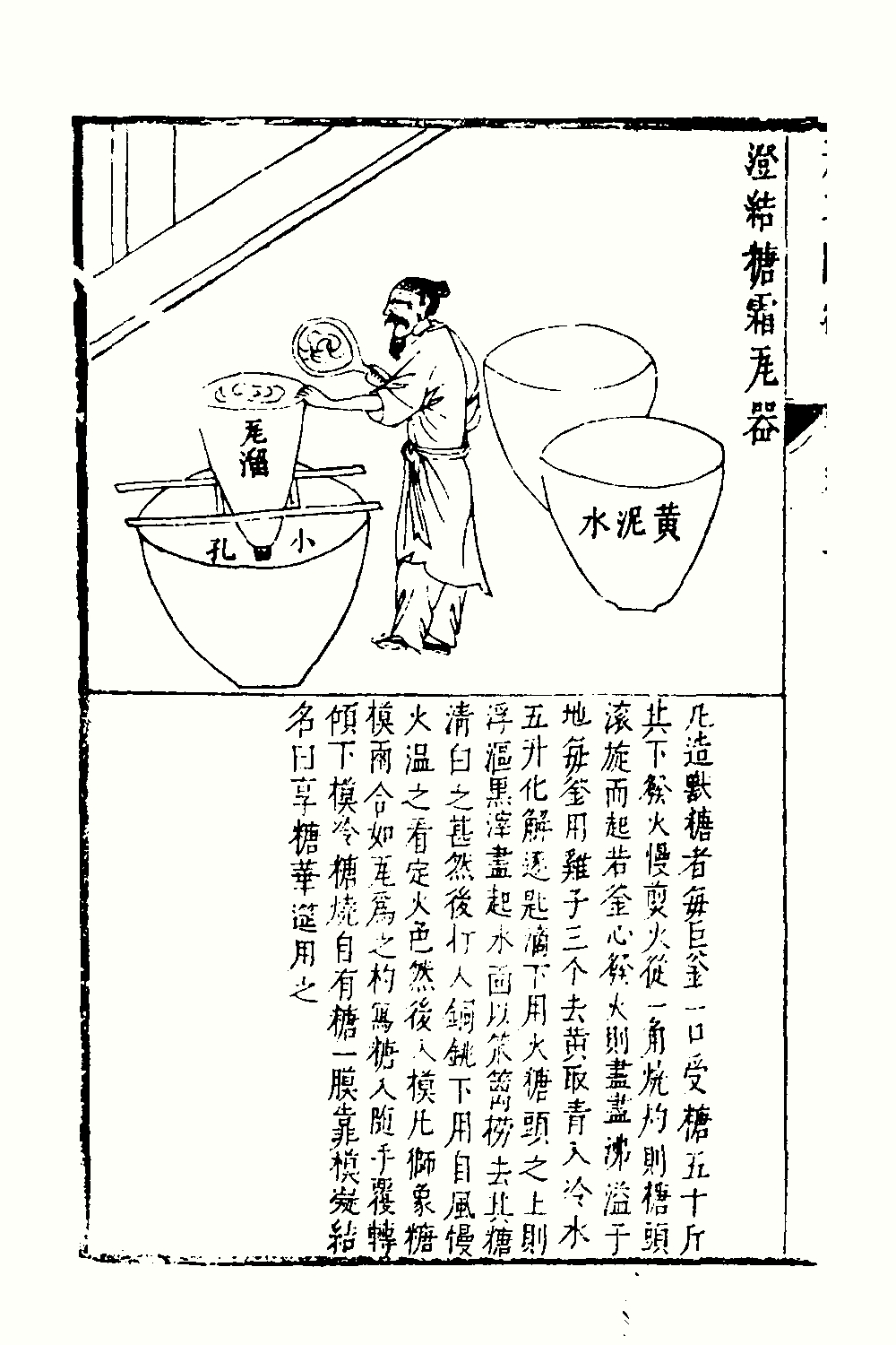 Jars for making sugar